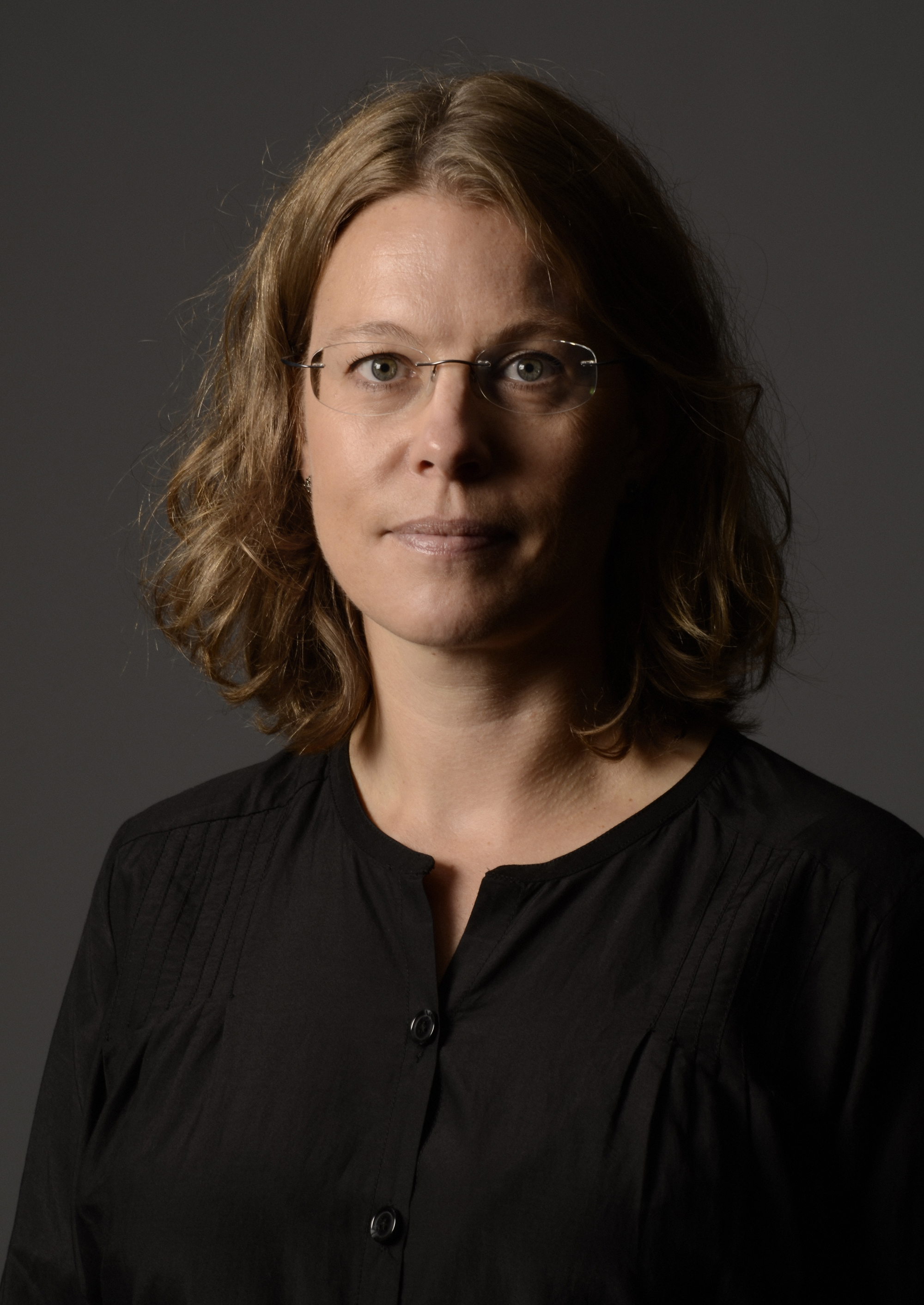 Portrait of Cilla Robach, principal at Beckmans College of Design, by photographer Bertil Nordahl